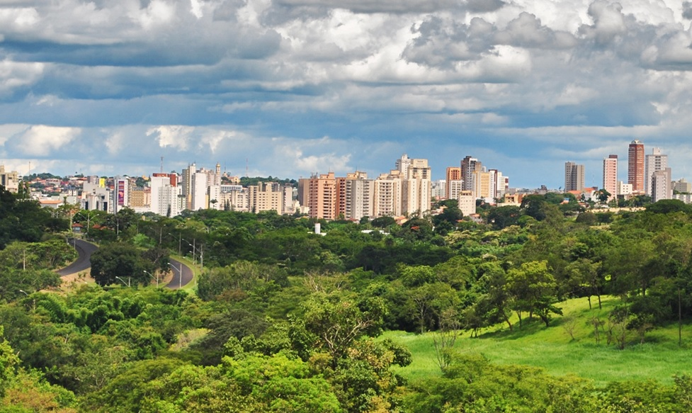 Uberaba.Univerdecidade